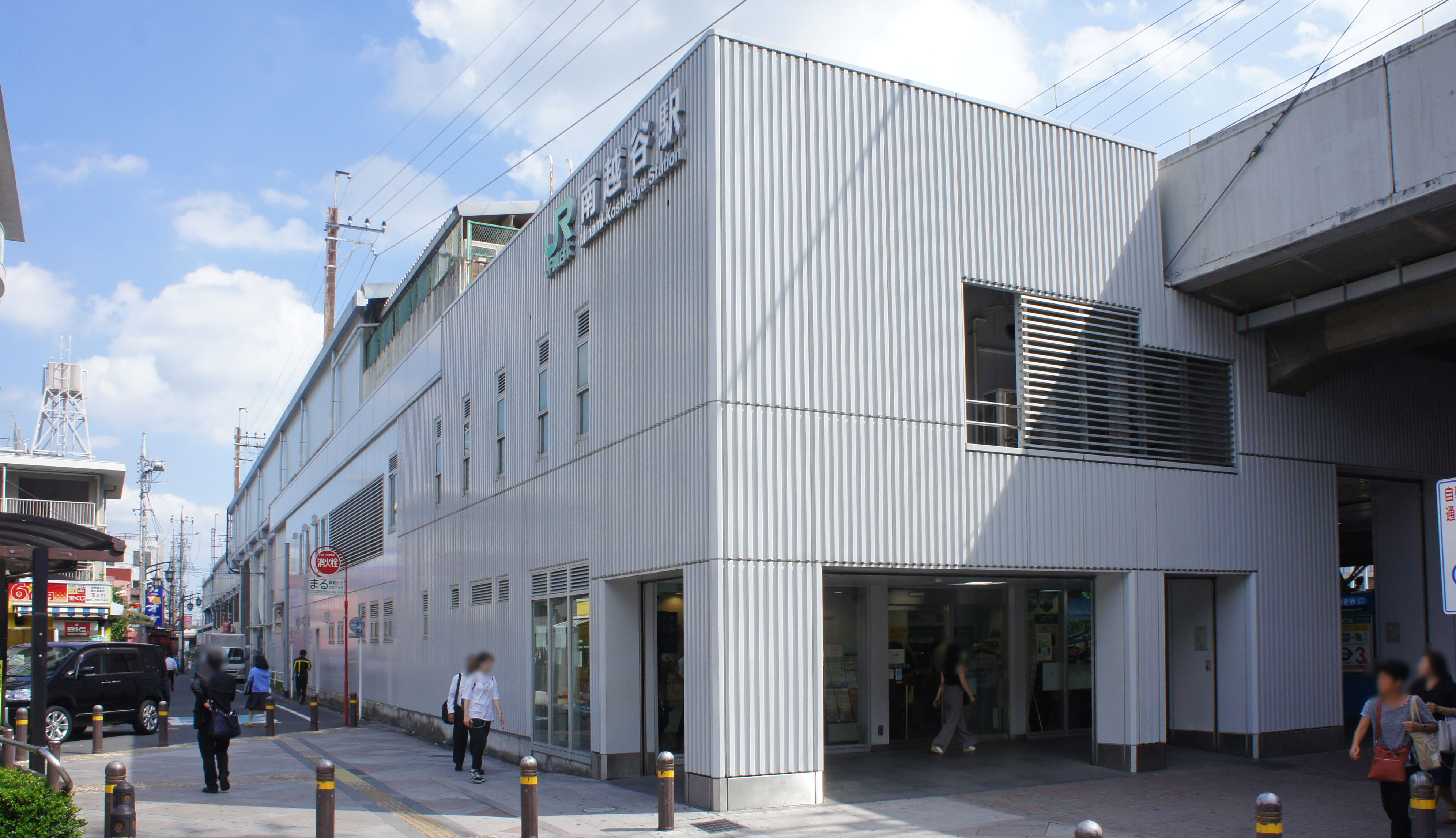 North Exit of JR Musashino-Line Minami-Koshigaya Station